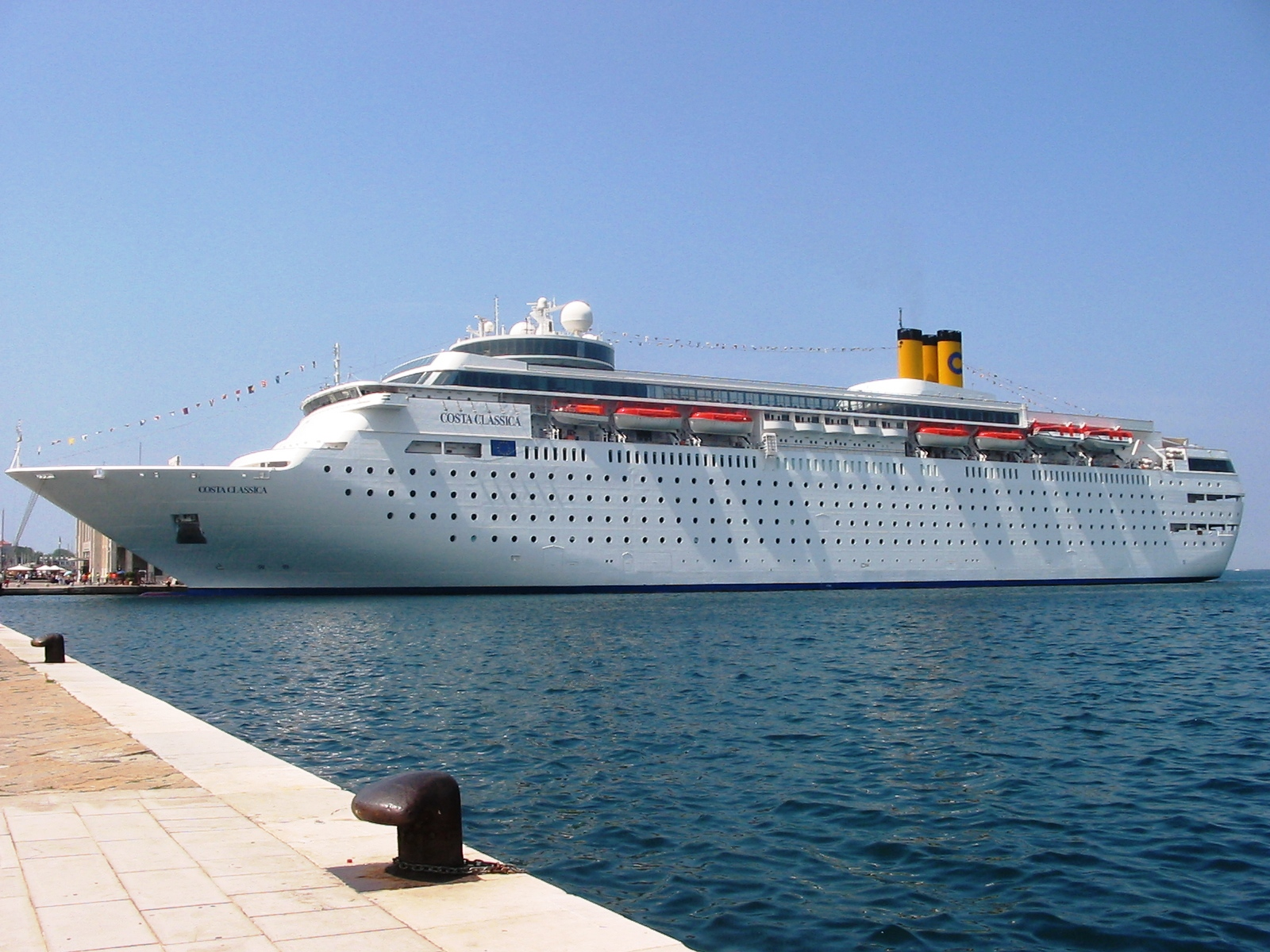 La nave da crociera "Costa Classica" ormeggiata alla Stazione Marittima di Trieste.